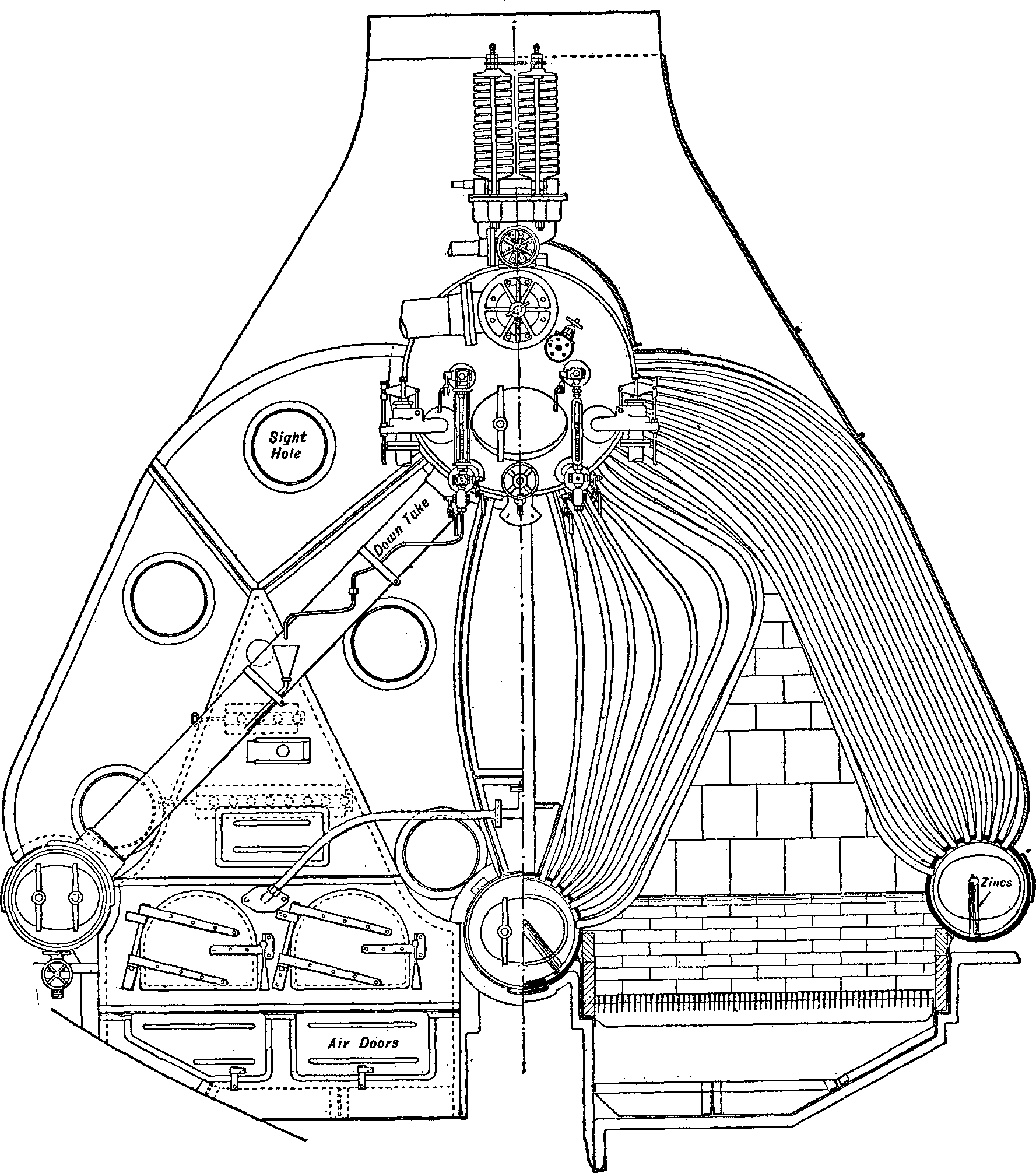 Thornycroft-Schulz boiler